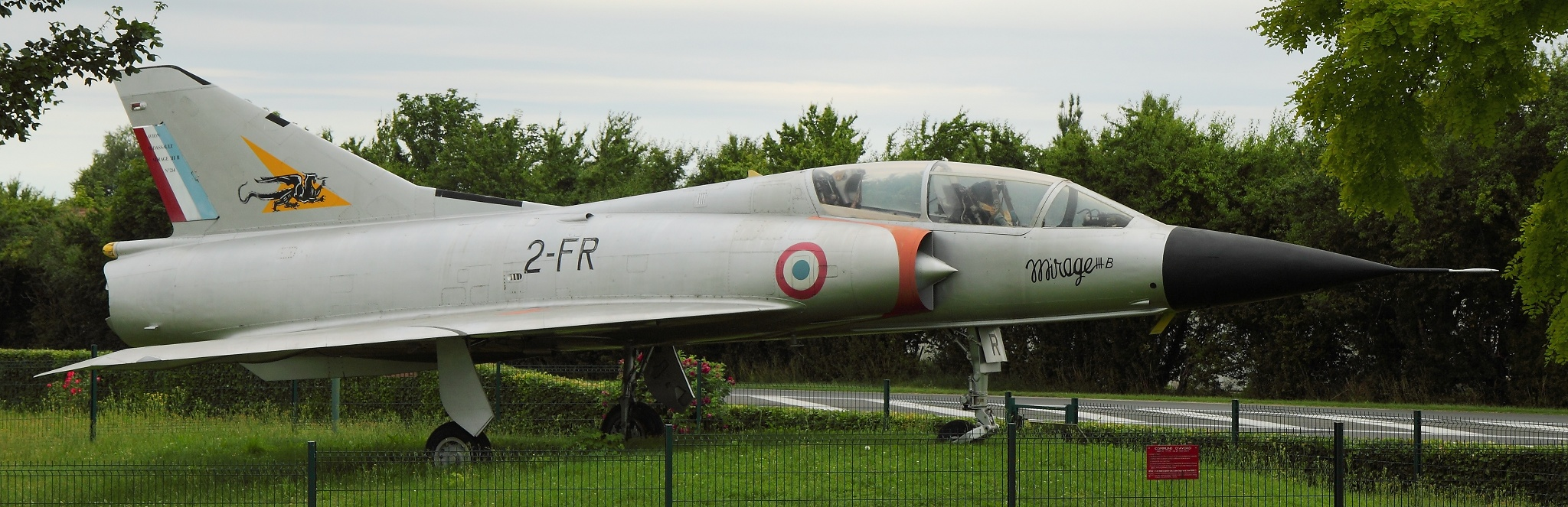 Right side vue of Mirage IIIB n°214, exposed in Avord (France). It shows marks of fighter squadron "2/2 Côte-d'Or", and designation code "2-FR".